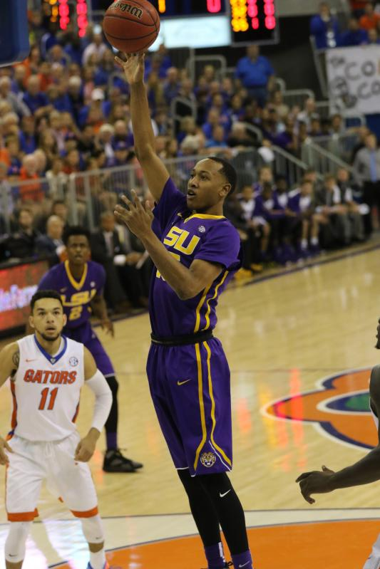 LSU Tigers vs Florida Gators, Gators win 78-62 in front of 11350 at the O'Connell Center.